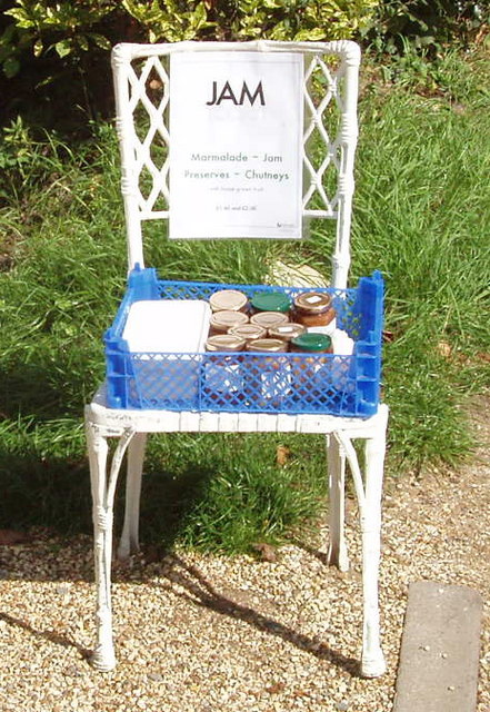 Roadside unattended jam stall, Stoke by Nayland. Do retail outlets get any smaller? Outside a house in the narrow lane of Scotland Street, Stoke by Nayland, were two chairs holding homemade jam and chutney. We put our £2 in the honesty box for a jar of chutney, and found it excellent. The labels from "Jam Today!" gave us an email address and phone number for ordering more.